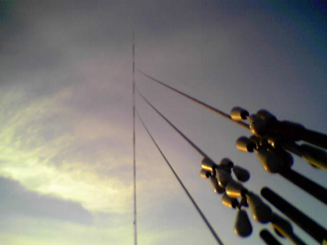 The KVLY-TV tower, 2,063 feet high, in North Dakota